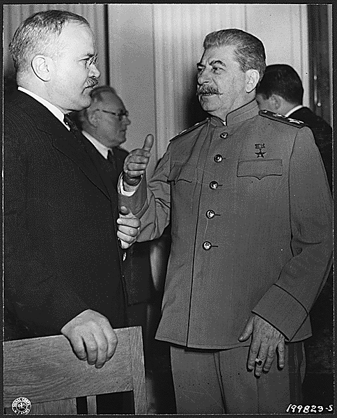 Вячеслав Михайлович Молотов (Molotov), Soviet politician, with Stalin Quelle: Franklin D. Roosevelt Presidential Library and Museum [1] ( Lizenz: All images are Copyright free and in the Public Domain. Library ID: 48223659(48) Date: 02/00/1945 Title: Russian Premier Stalin talks with gestures to his Foreign Minister Molotov at the Palace, Yalta, Crimea, Russia.